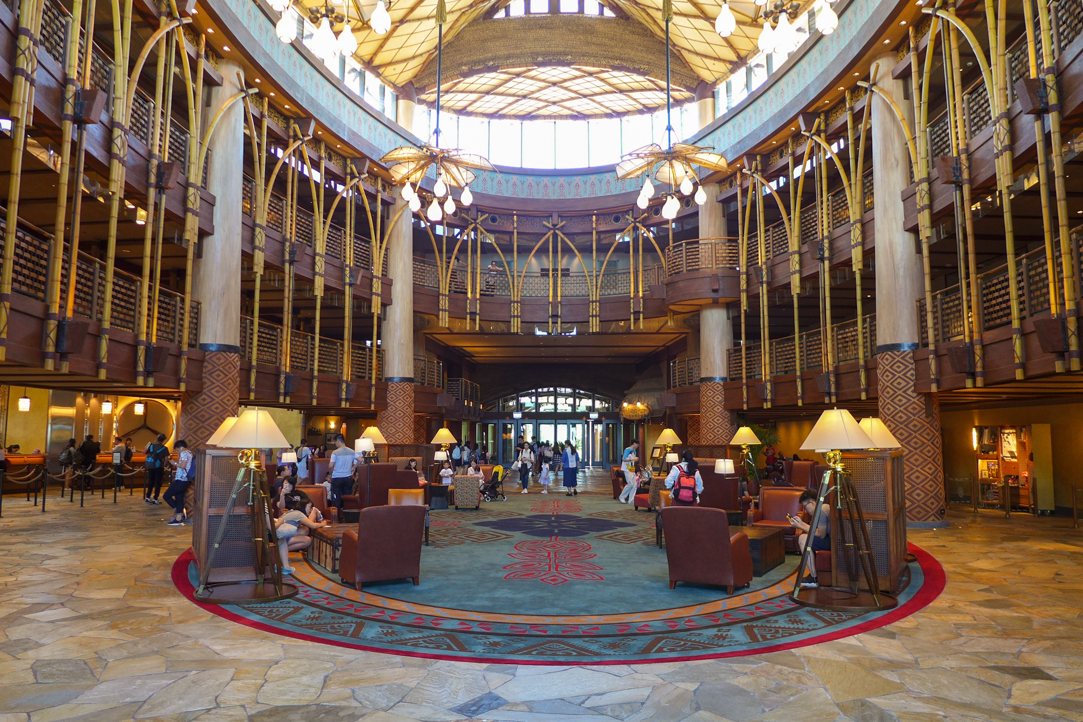 Disney Explorers Lodge